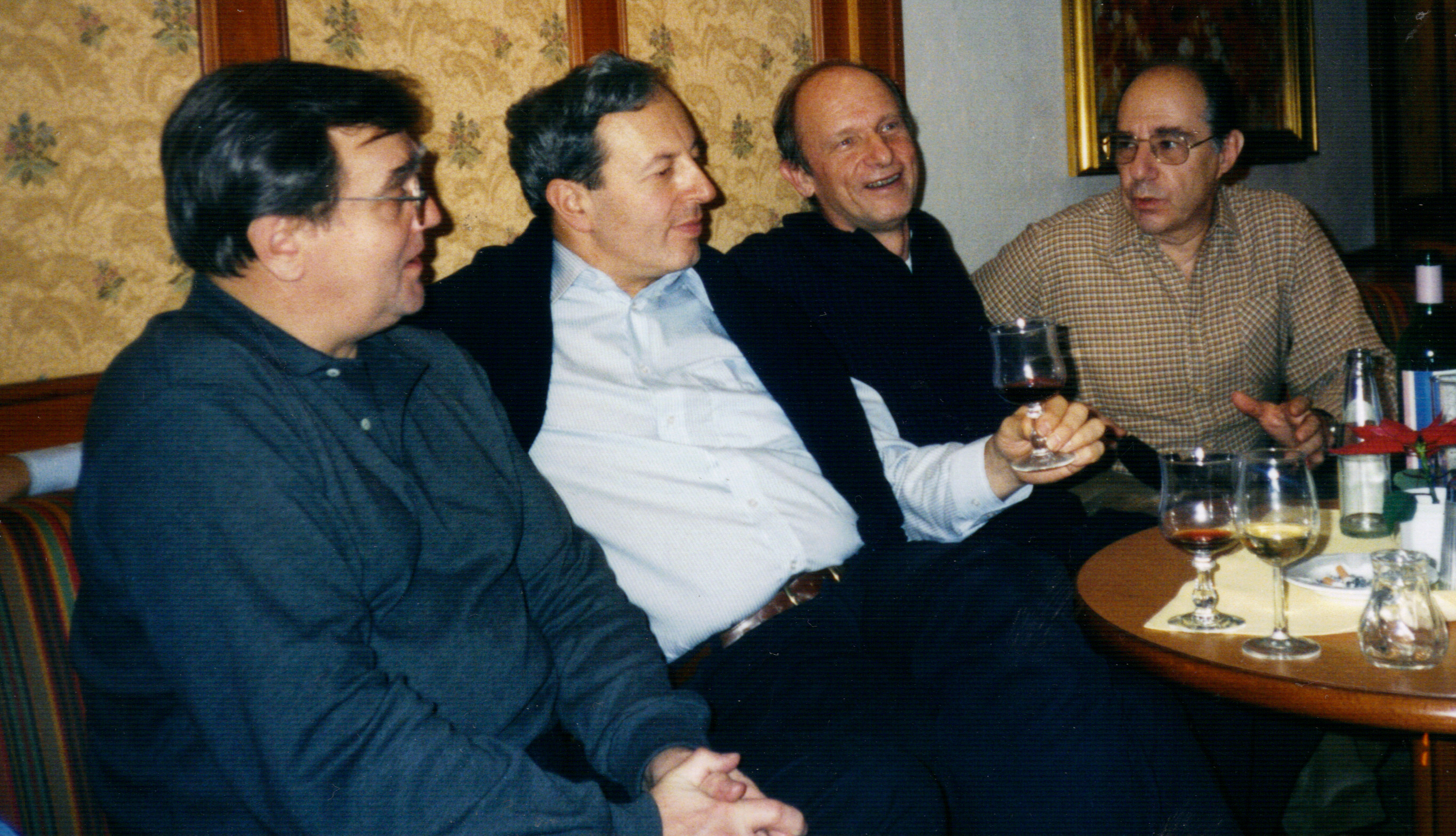 Kautsky-Kreis 1999. After work relaxation, Vitalhotel Bad Mitterndorf